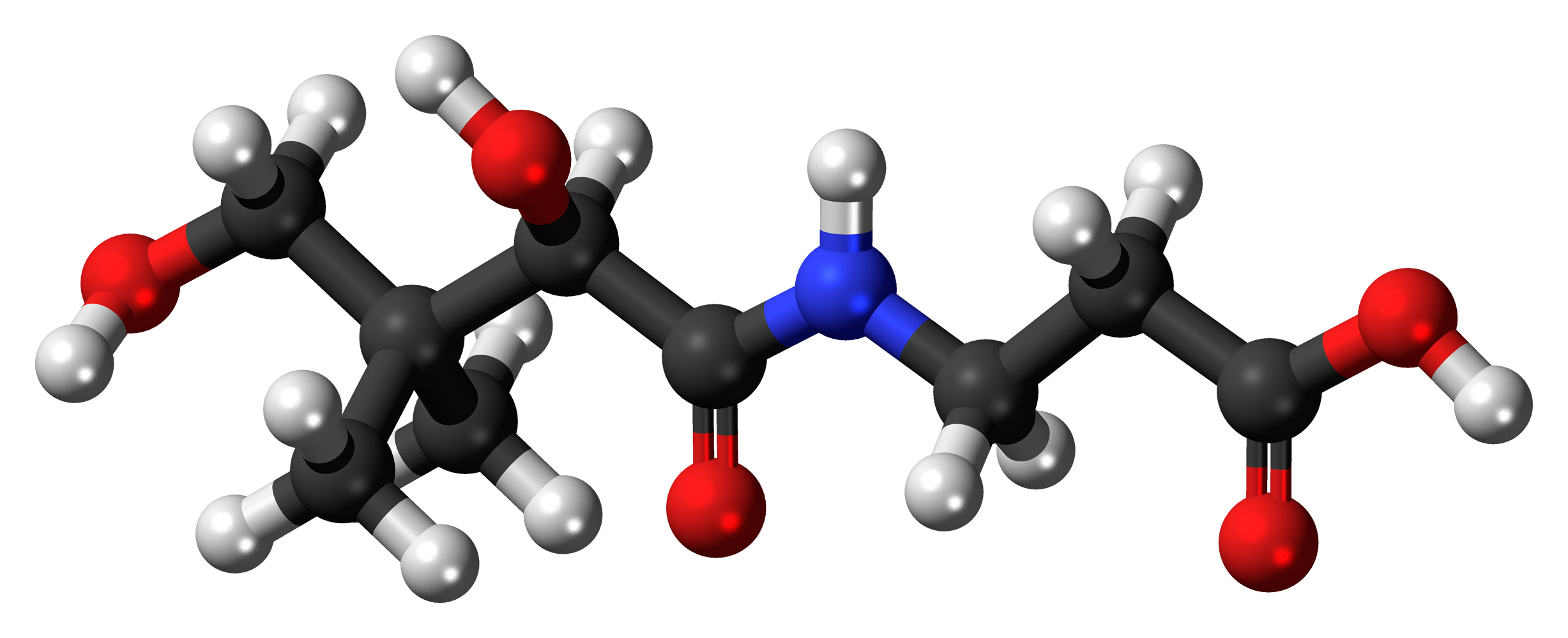 Ball-and-stick model of the pantothenic acid molecule, the most common form of Vitamin B5. Colour code: Carbon, C: black Hydrogen, H: white Oxygen, O: red Nitrogen, N: blue